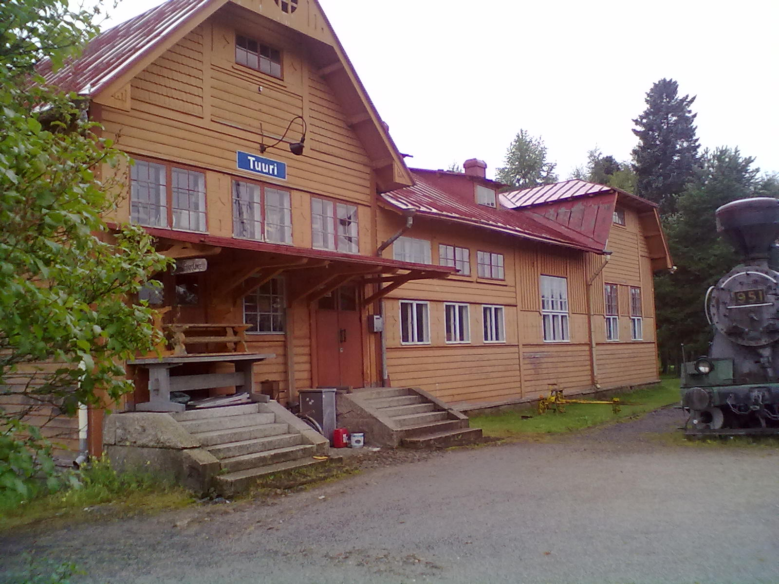 Old railwaystation-building of Tuuri